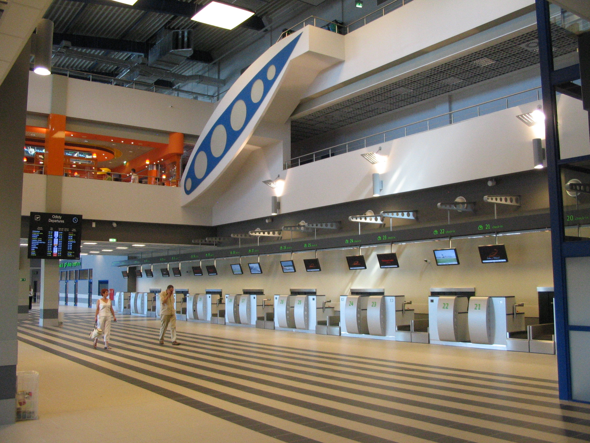 Katowice International Airport in Pyrzowice - terminal B - check-in counters